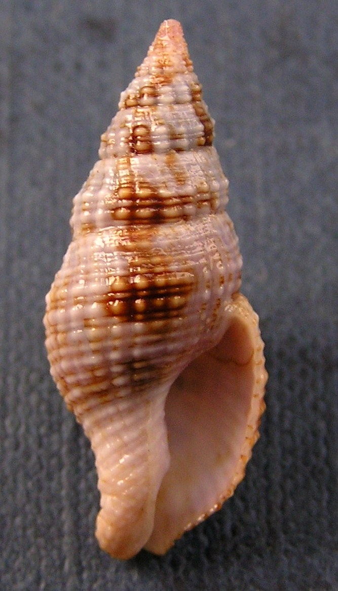 Prodotia iostoma (Gray, 1834) (synonym: Pisania billeheusti Petit, 1946), a true whelk form the family Buccinidae; Philippines